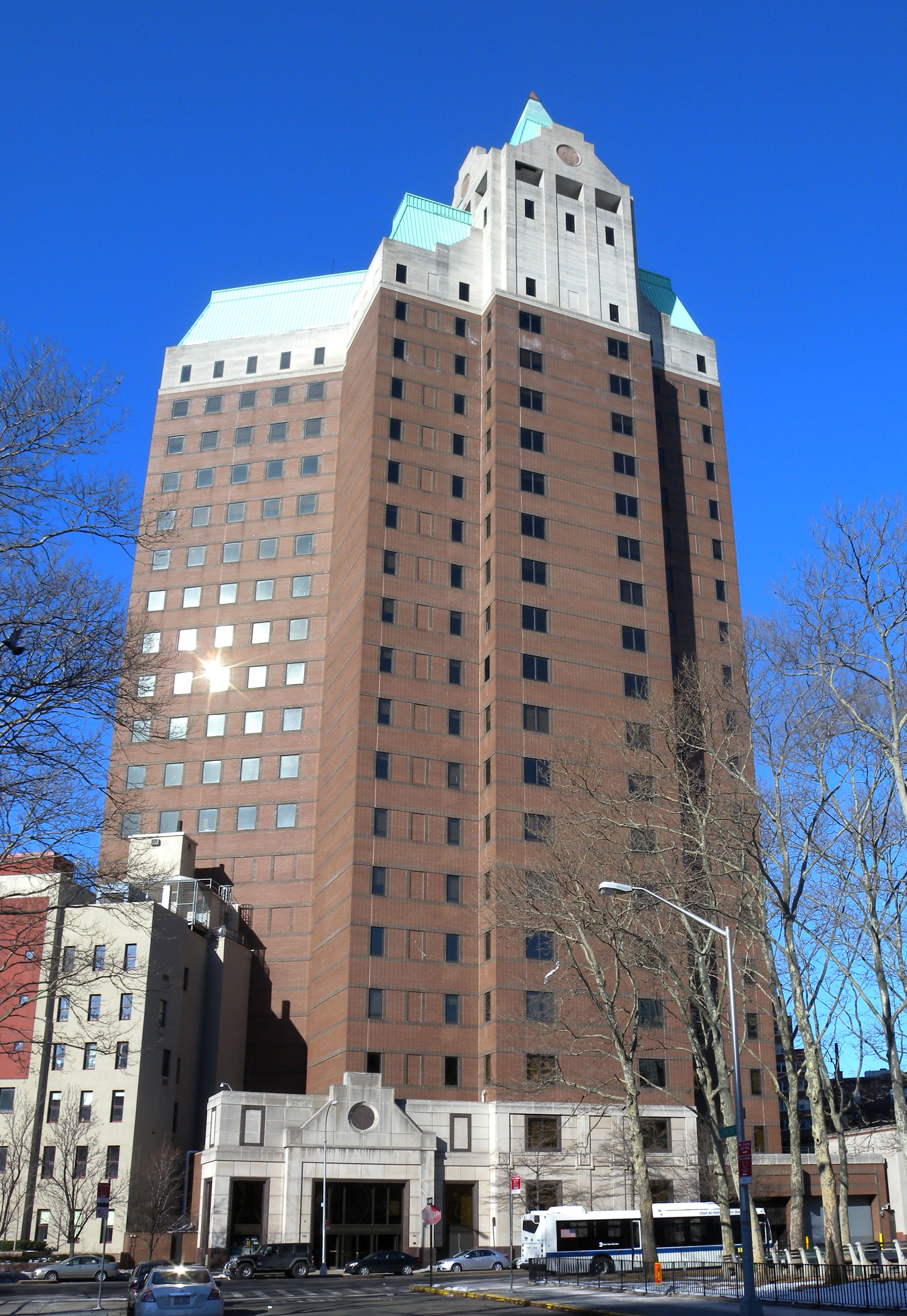 Looking northwest from Washington Street at One Pierpont Plaza on a sunny morning.